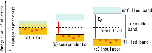 Comparison of Metal and bandgaps of Semiconductor,Insulator with fermi level